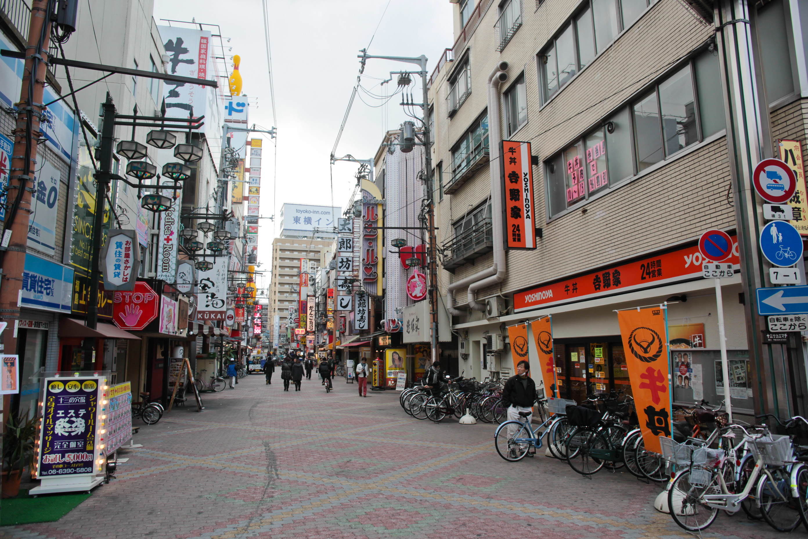 Sakaemachi in Juso, Osaka